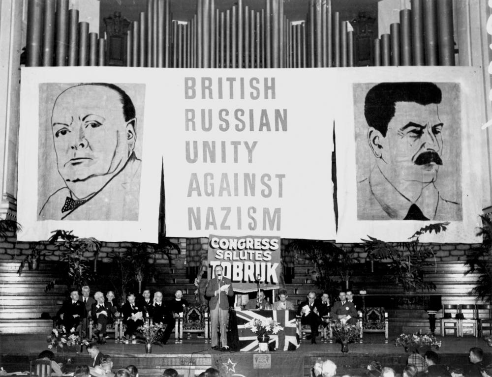 Guests seated on stage in front of a backdrop of giant posters at the Aid to Soviet Congress, Brisbane City Hall, October 1941. Three thousand people attended the opening of the Aid to Soviet Congress, organised to support closer military, cultural, trade and diplomatic relations with the Soviet Union. A collection raised 155 pounds. Speakers at the Congress included Mr G. C. Taylor, MLA, President of the Australian-Russian Association. Huge portraits of the British Prime Minister, Winston Churchill, and Soviet leader, Josephn Stalin, were a feature of the stage decorations. (Description taken from: Courier Mail, Saturday 1 November 1941, p. 3).